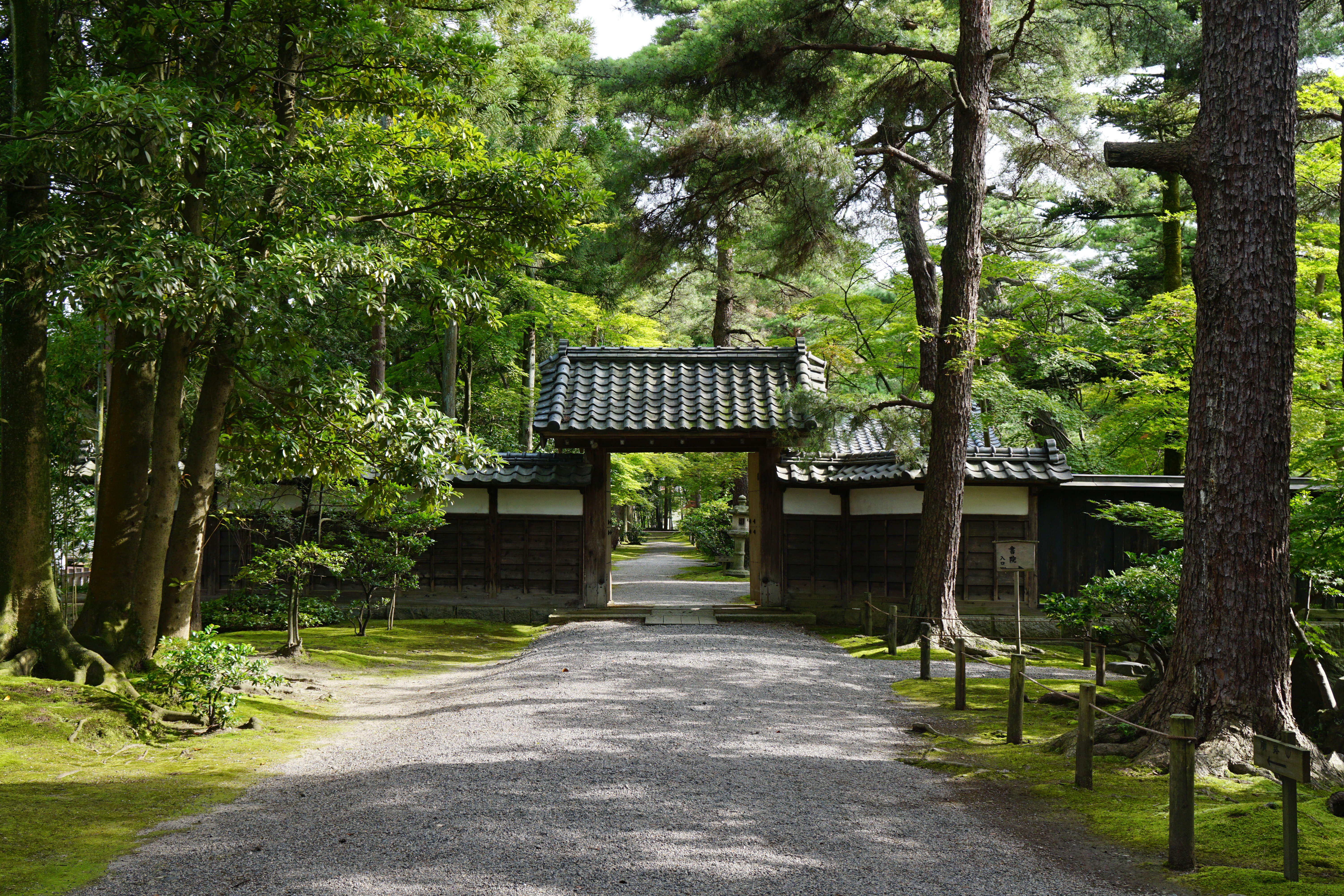 Shimizu-en in Shibata, Niigata prefecture, Japan.